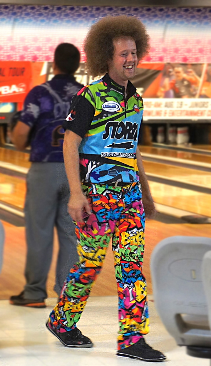 Ten-pin bowler Kyle Troup during tournament in Middletown, Delaware, U.S.